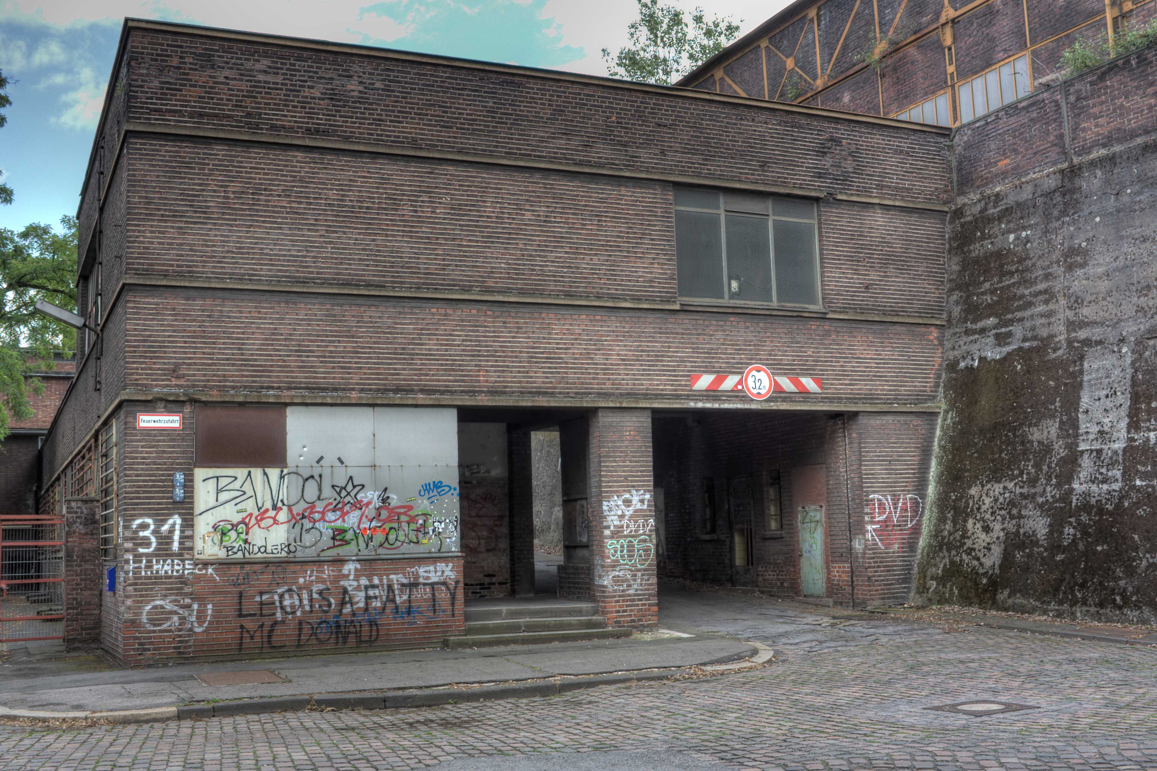 Gate of the former coal mine Westende